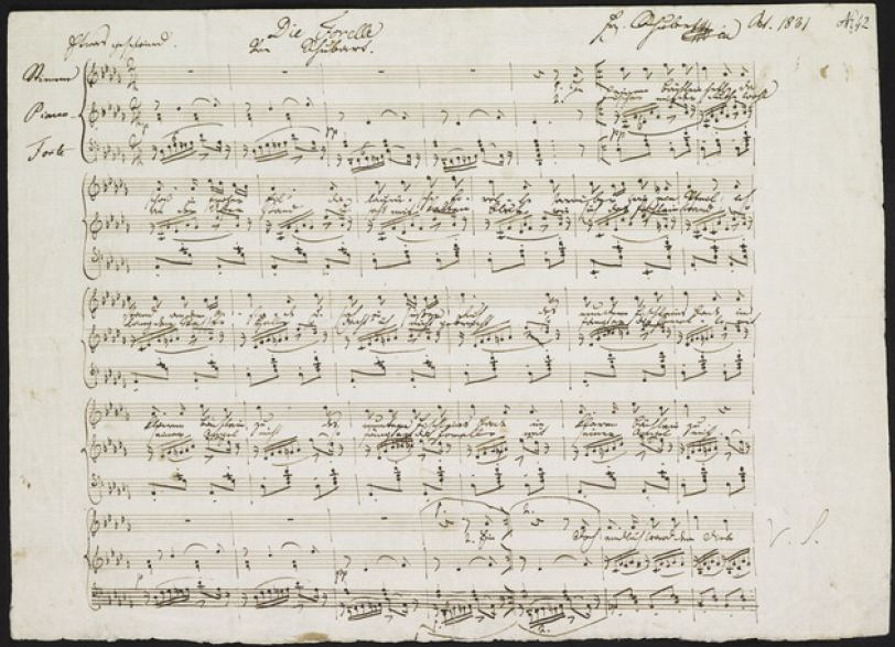 Hand-written copy of "Die Forelle" by Franz Schubert, published in 1817